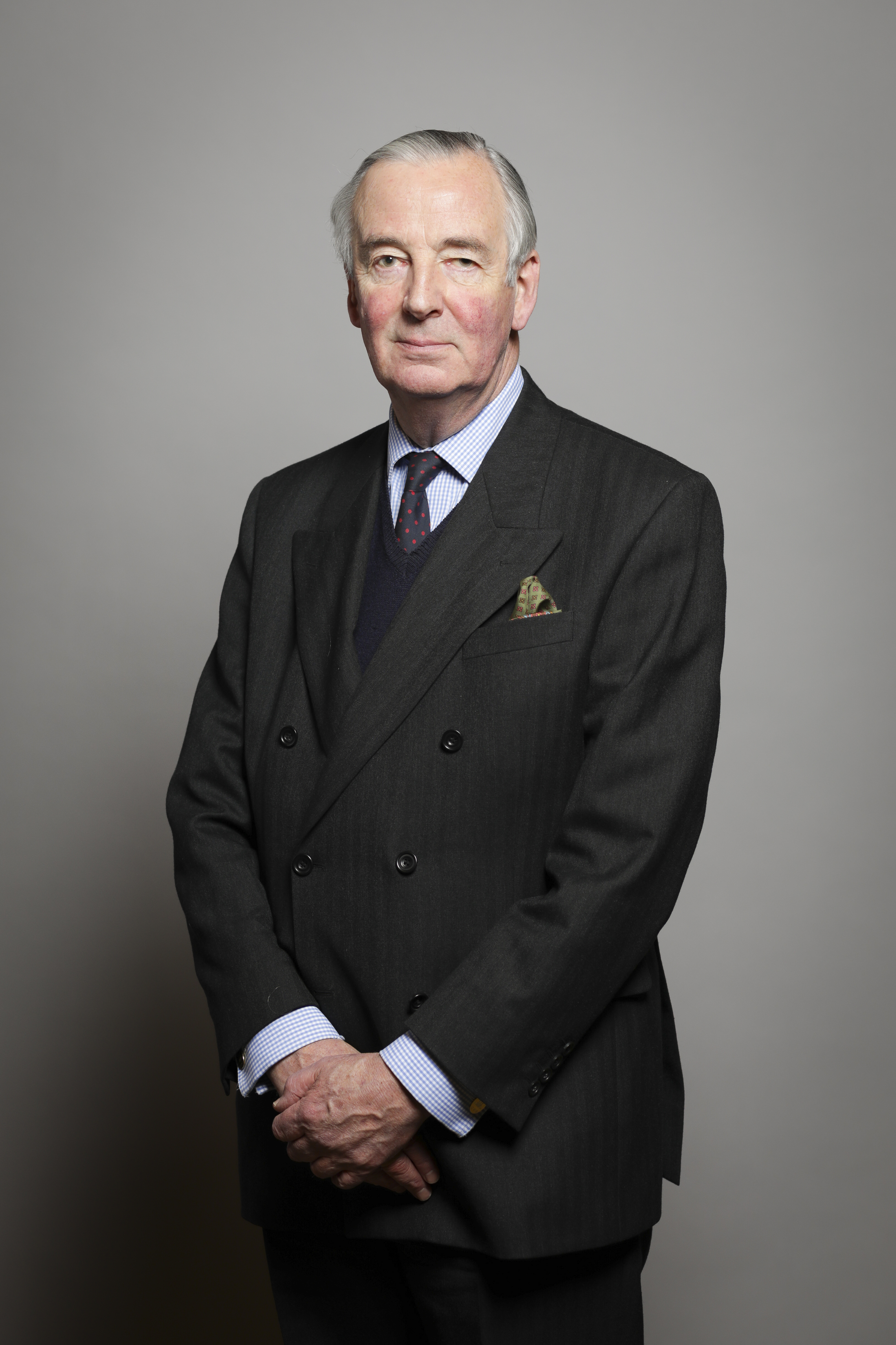 Official portrait of Lord Glenarthur Full sized portrait of Lord Glenarthur